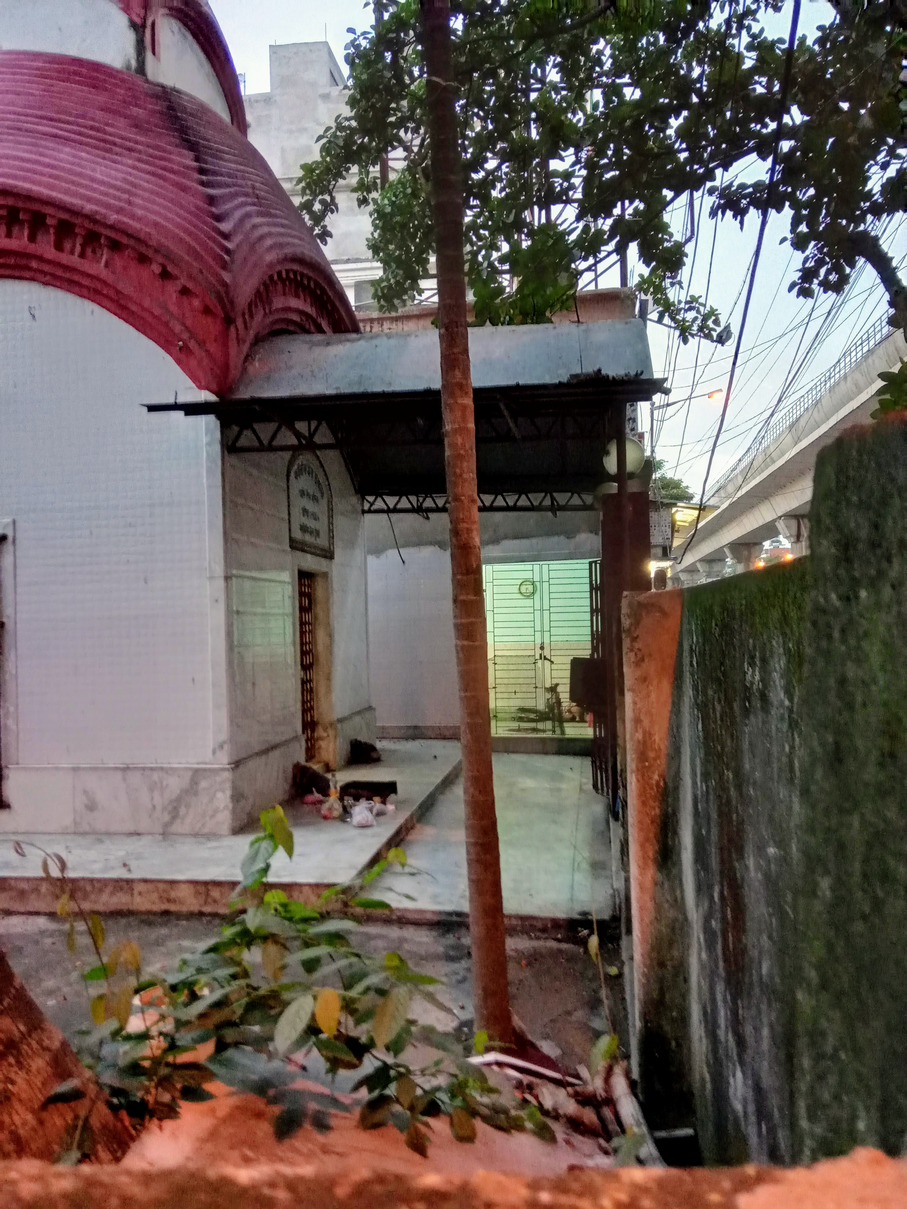 This is the photo of Adi Shiva Temple at Silpara, Behala, West Bengal in India. It was built in 1735 A.D.